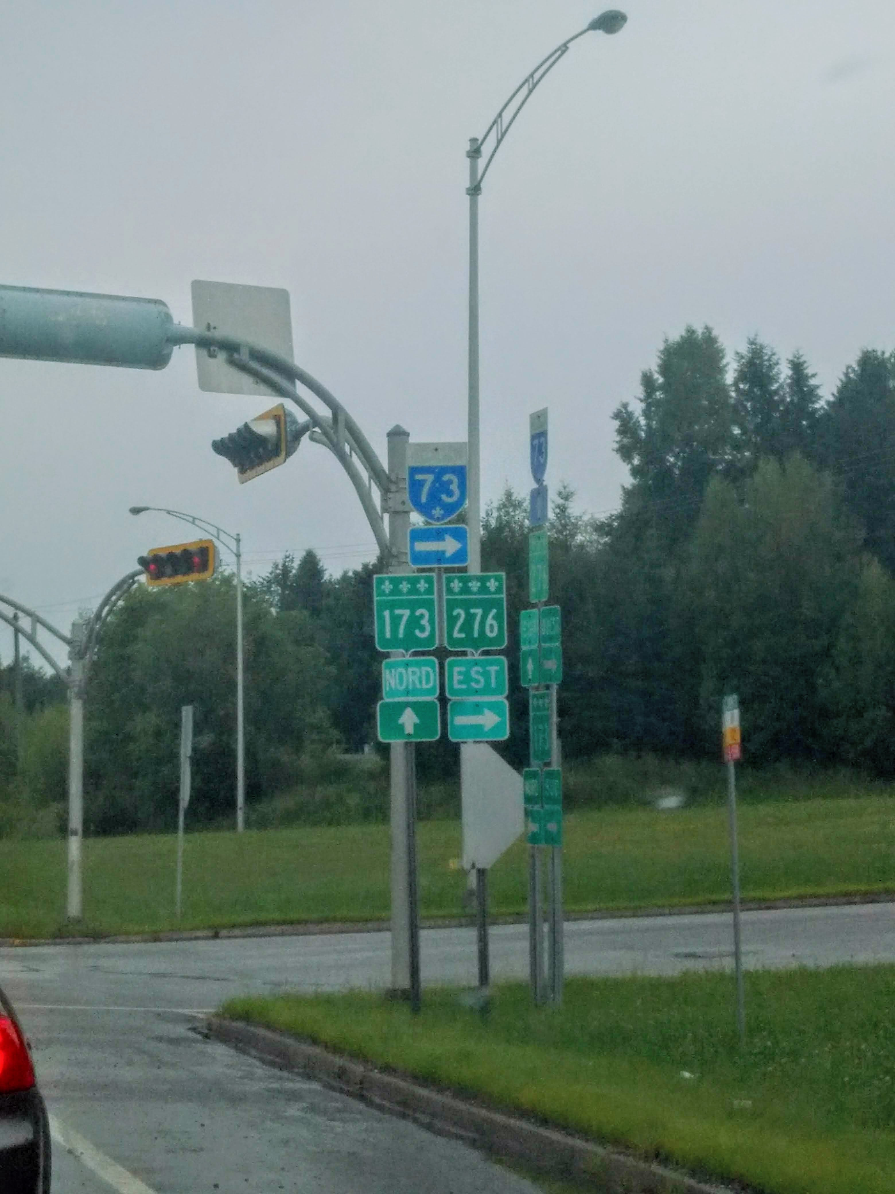 Signs at the junction of Routes 173 and 276 in Saint-Joseph-de-Beauce.